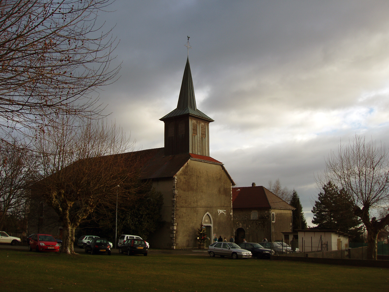 Collonges (Ain, France) church